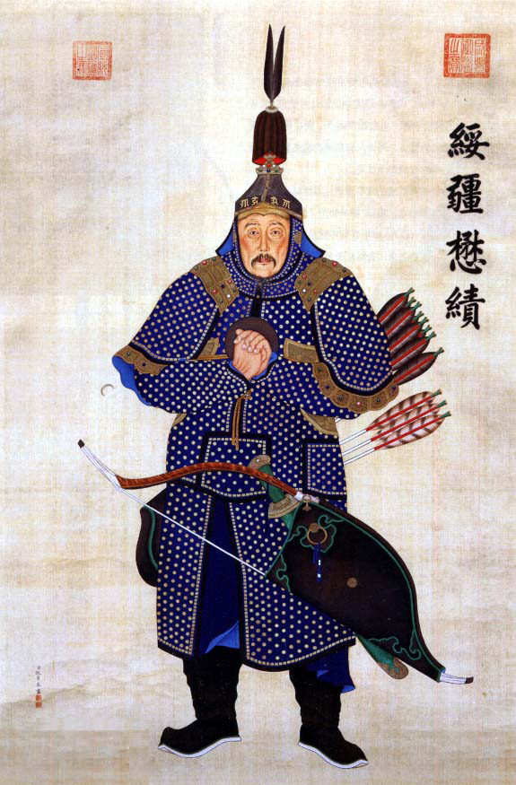 Jaohûi (兆惠 zhao hui) an officer bannerman of the Qing Army during Qianlong's era.